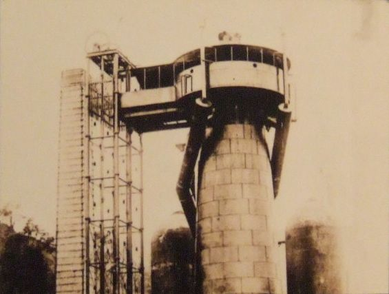 Tanaka iron works, Kamaishi mine